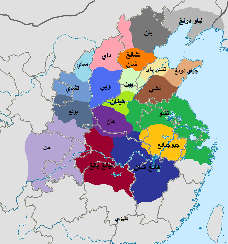 Approximate location of the Eighteen Kingdoms after the fall of the Qin Dynasty (206-202 BCE). Superimposed on current borders.